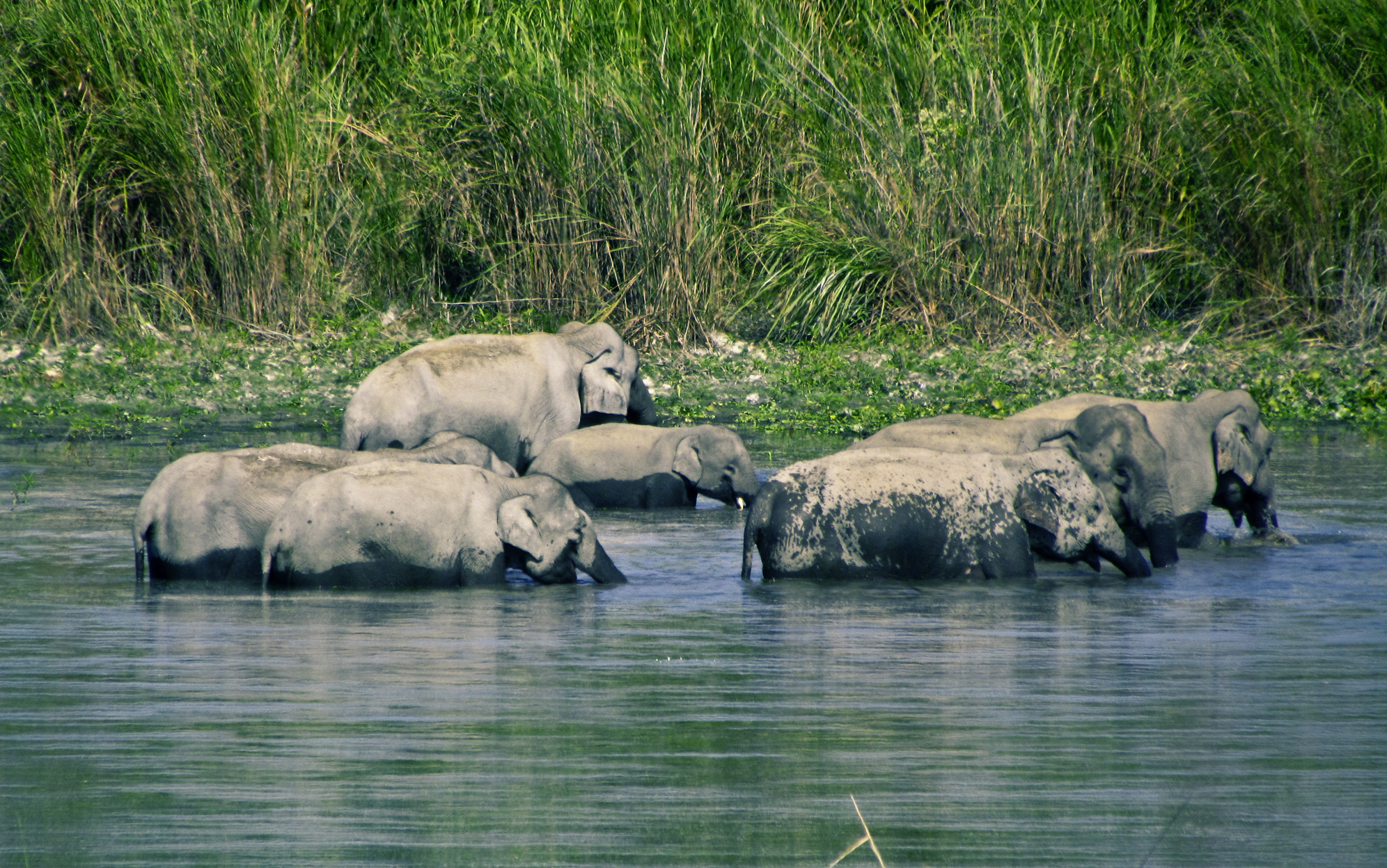 Elephants having community bath.